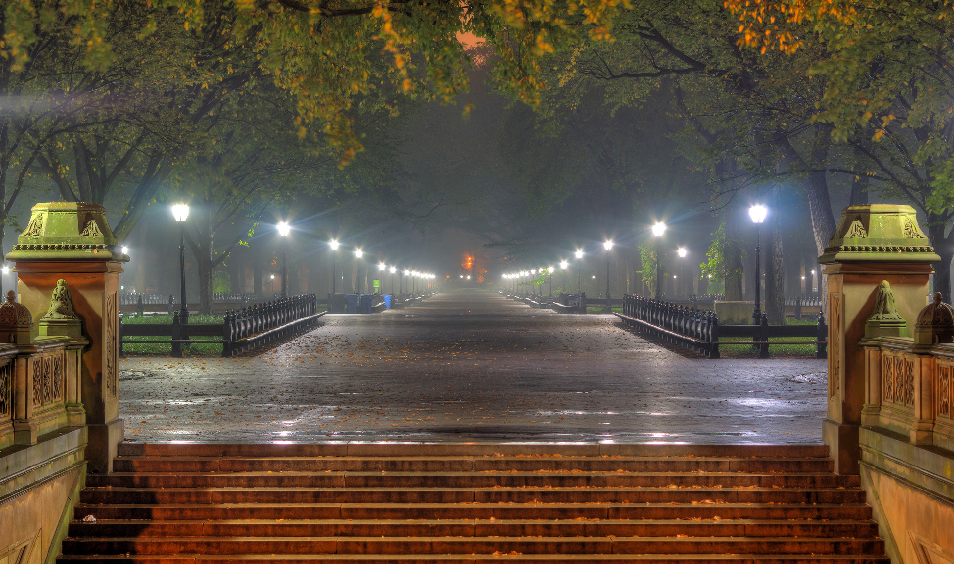 New York City's Central Park on a foggy fall night